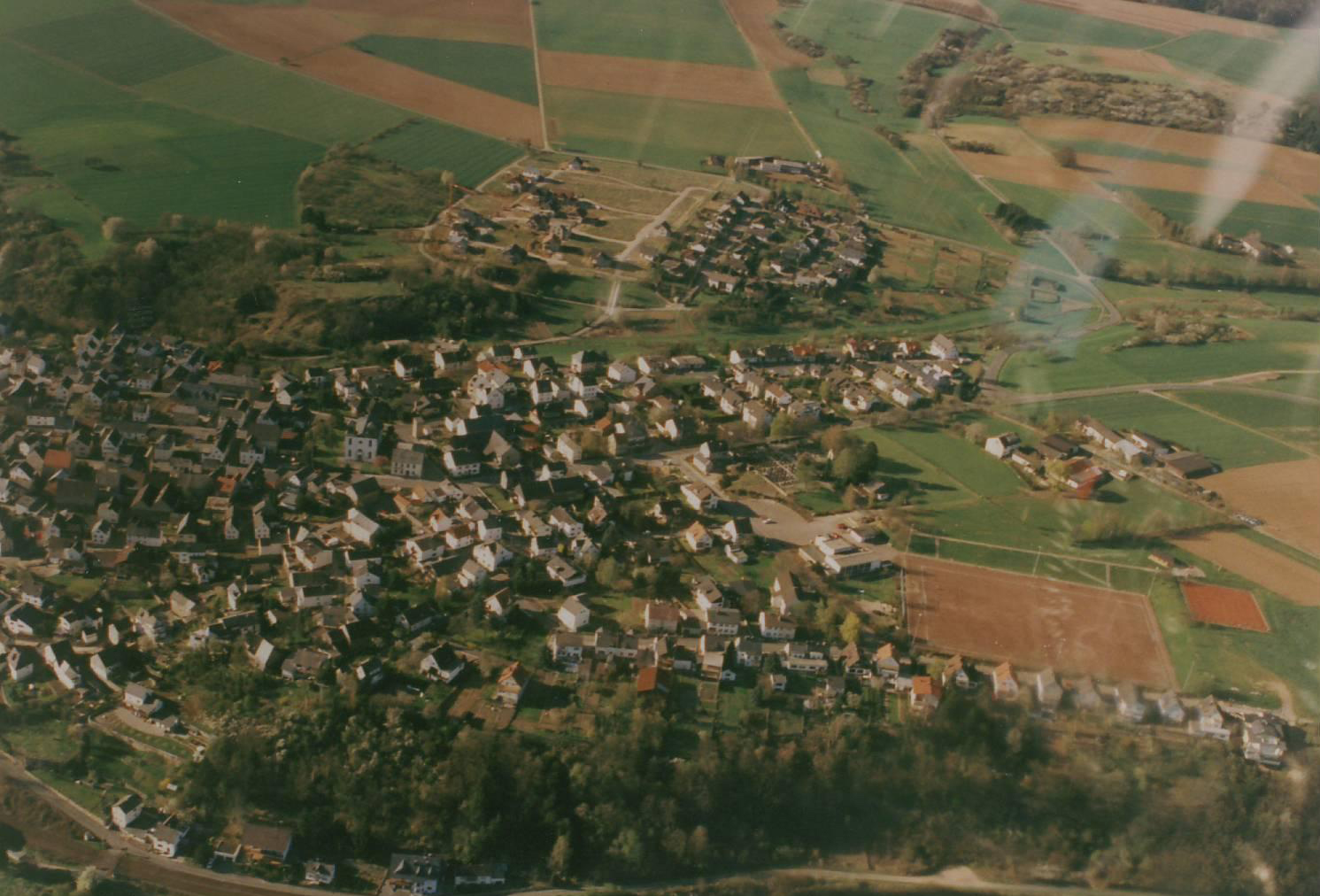 Photographed by Maximilian Schmitz born in Arfurt